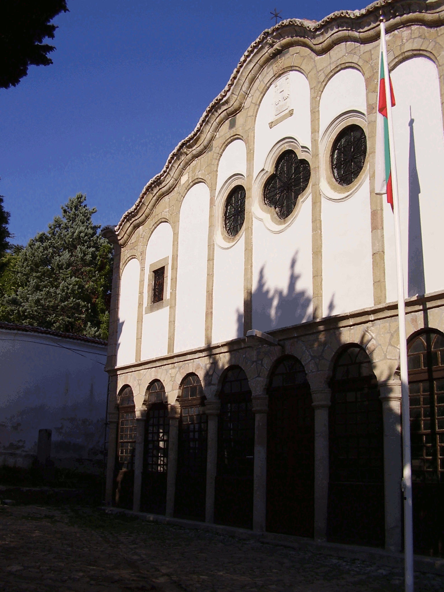 Church of Saints Peter and Paul (1846), Sopot, Bulgaria